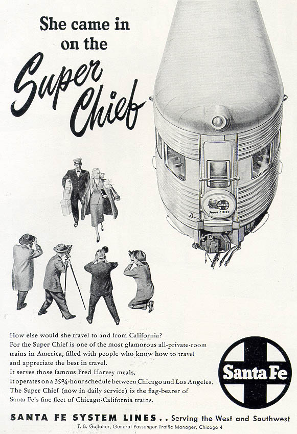 Print ad for the Santa Fe Railway's Super Chief.